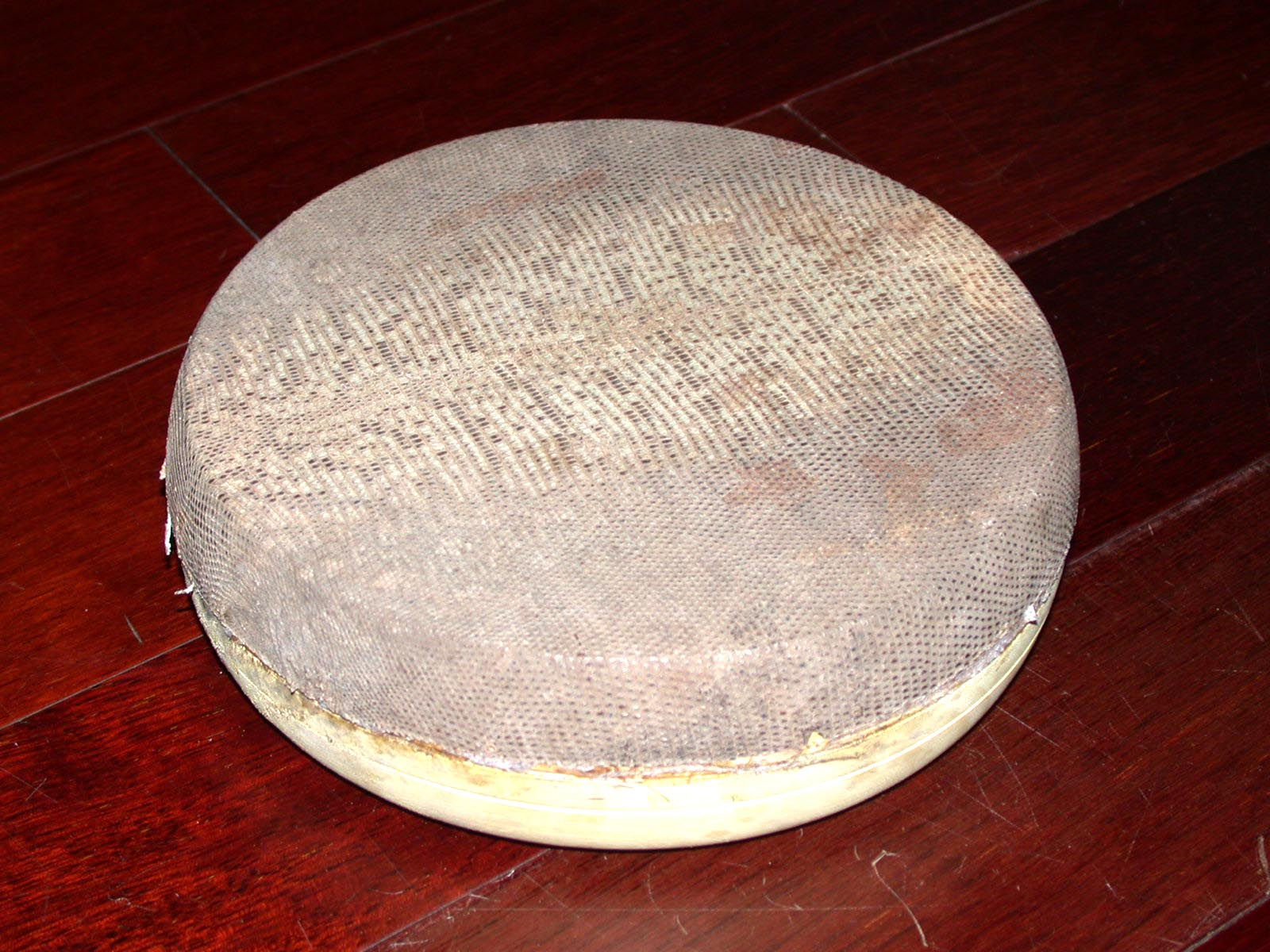 Kanjira (Indian percussion instrument)